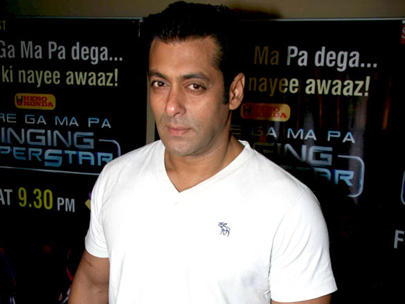 Salman Khan promotes Dabangg on Zee Singing Superstar